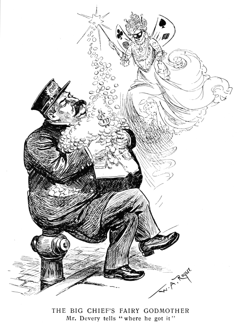 A cartoon by William Allen Rogers entitled "The Big Chief’s Fairy Godmother', published in Harper's Weekly in 1902. Shows a sleeping man in a police uniform -- a caricature of New York City Police Chief William Stephen Devery-- seated on a fire hydrant; a fairy with wings decorated with playing card suits holds a wand over him to showers him with coins.